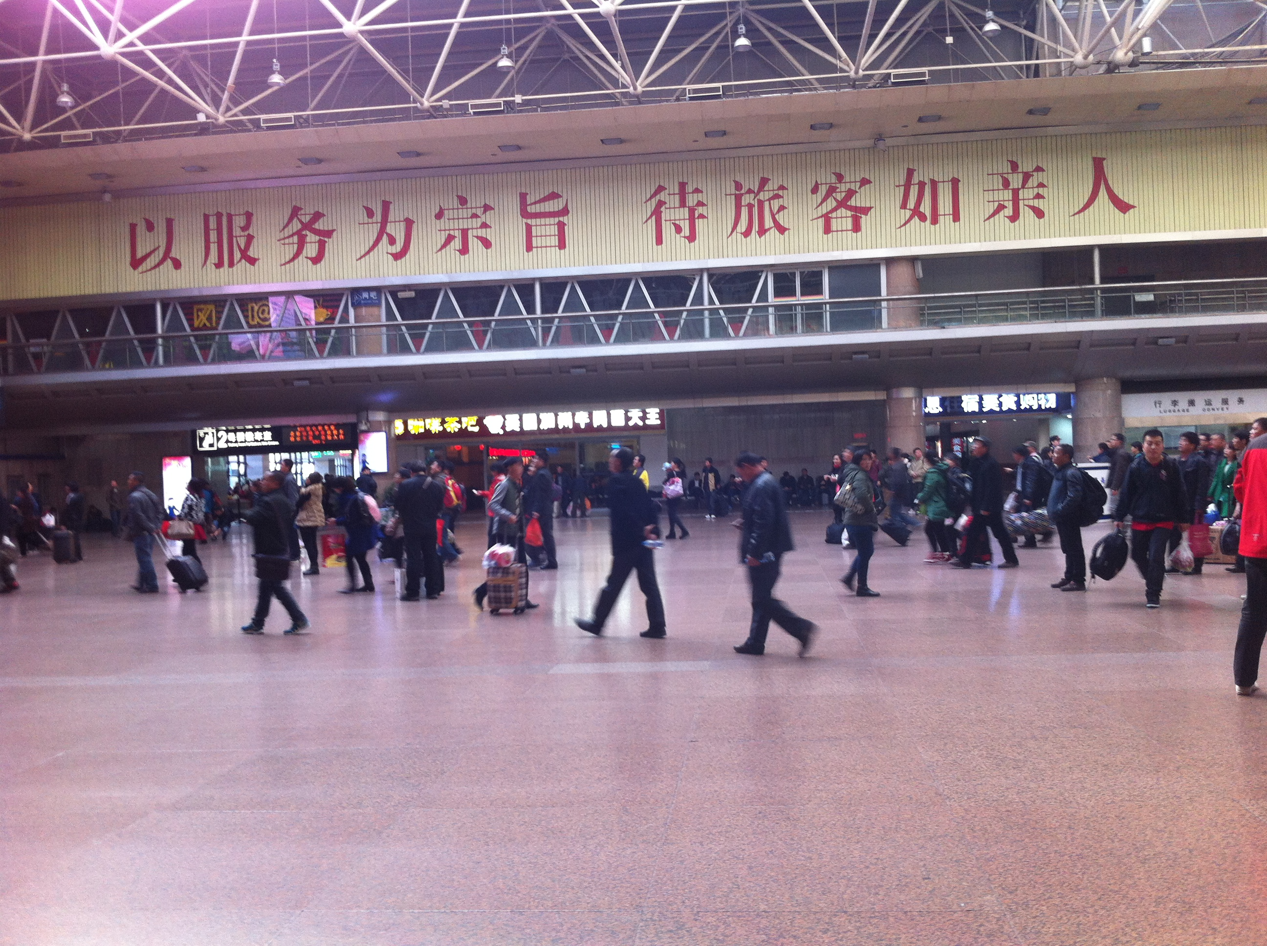 In the departure hall of Beijingxi Railway Station. Are passengers really regarded as family members?